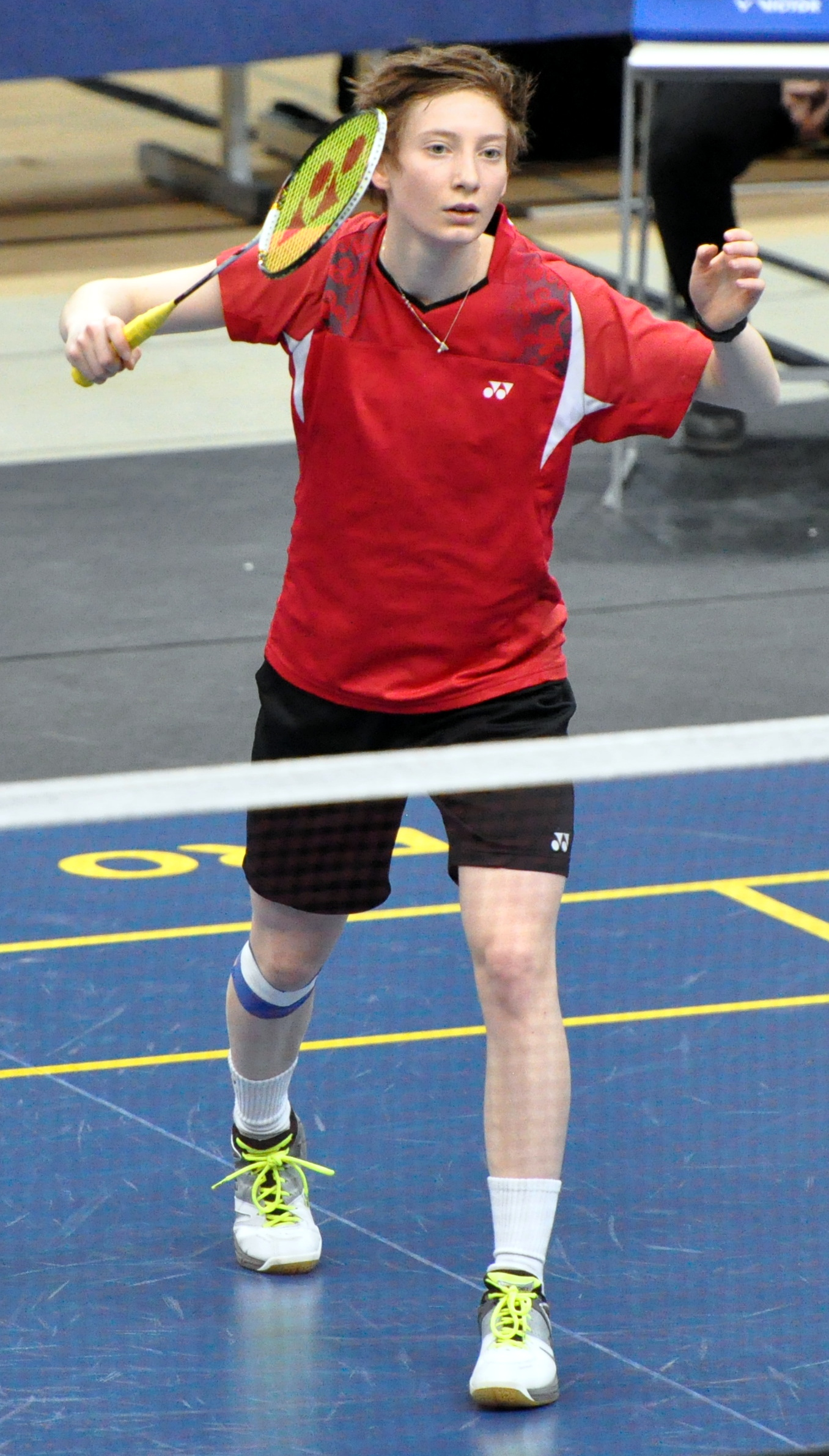 Anna Thea Madsen is a Danish badminton player.